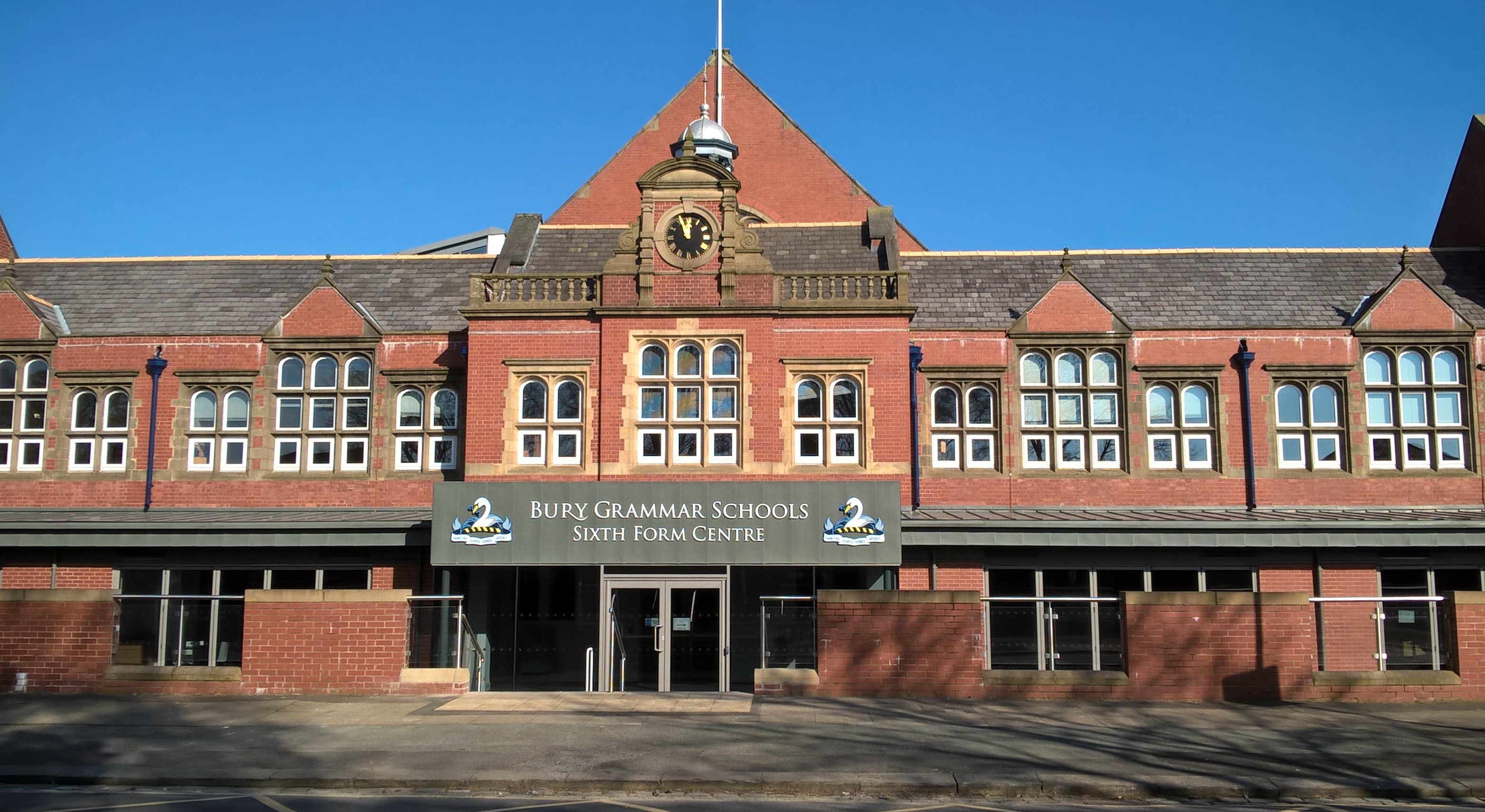 Bury Grammar Schools Sixth Form Centre, Bridge Road, Bury, Lancashire, BL9 0HH